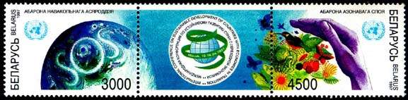 Stamp of Belarus